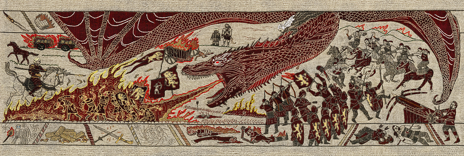 Battle of the Goldroad from Game of Thrones - Season 7 Episode 4 on the official tapestry produced in Northern Ireland.